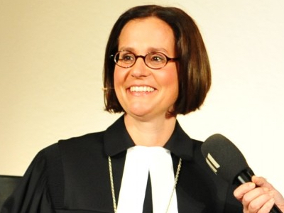 Maria Katharina Moser